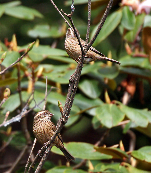 Pink-browed Rosefinch Carpodacus rodochroa in Kullu District of Himachal Pradesh, India.